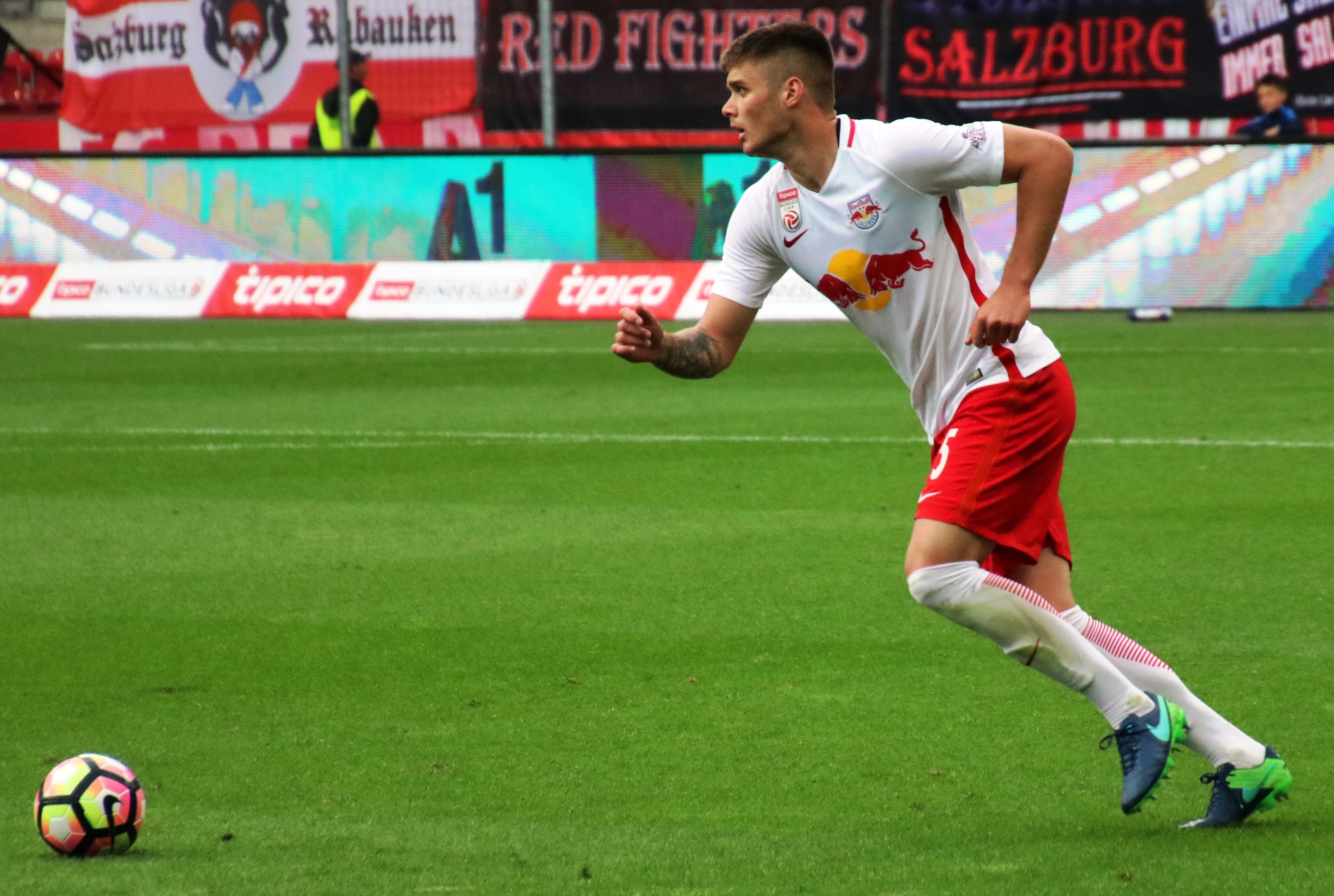 league match Austrian Bundesliga